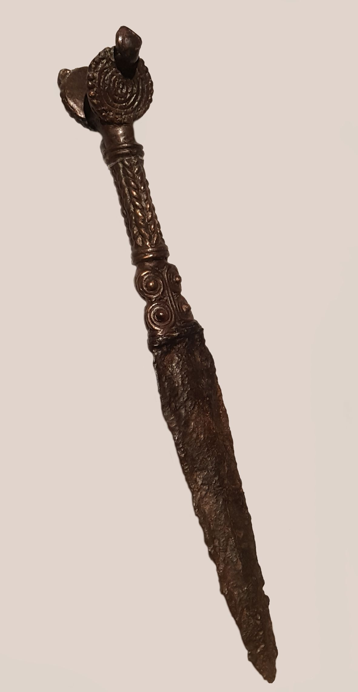 Bronze & Iron Alloy Dagger, Saruq Al Hadid (Image has been post processed to remove background)